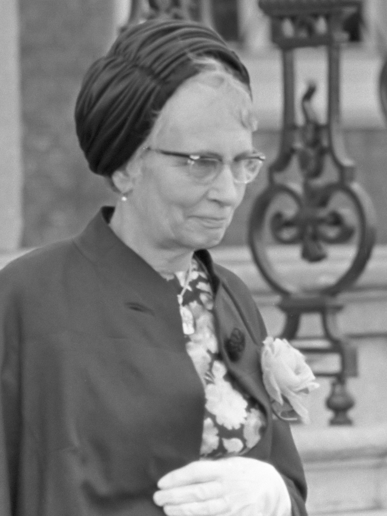 Mevrouw von Amsberg-von dem Bussche-Haddenhausen bij de doop van prins Willem-Alexander 2 september 1967